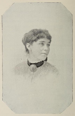 Georgina Fraser Newhall (1895)